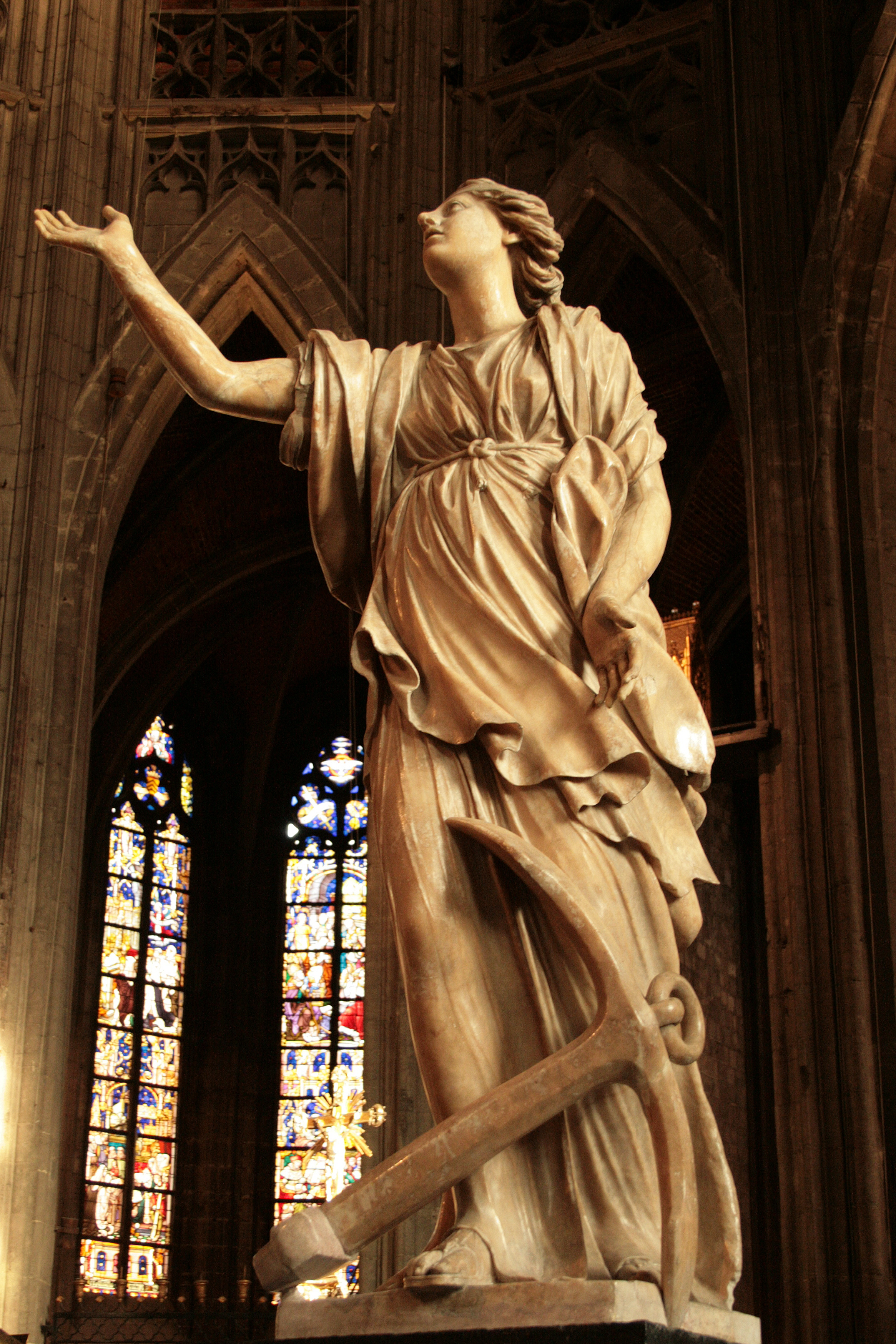 Alabaster statue of the Hope. – Part of the former rood screen performed by Jacques Du Broeucq between 1541 and 1545 for the Saint Waltrude collegiate church of Mons (Belgium).